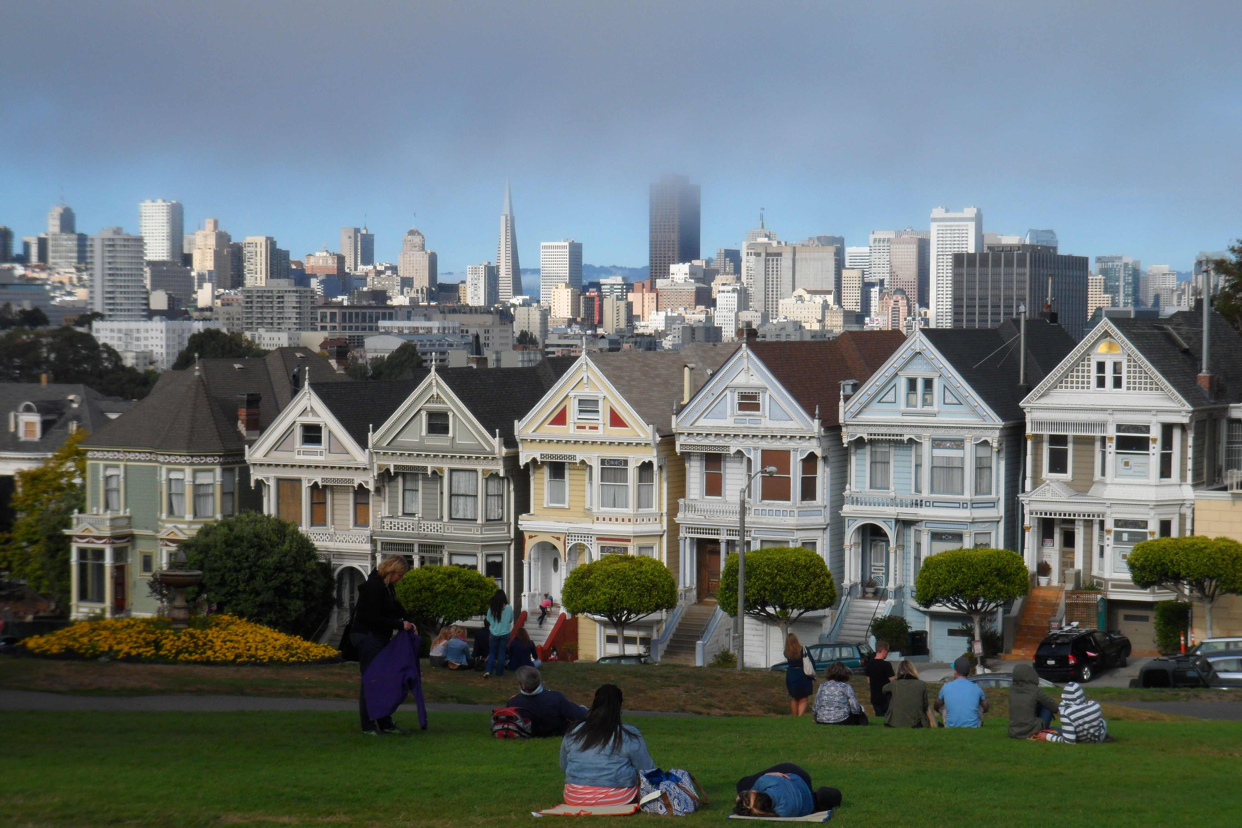 The Famous Painted ladies of San Francisco